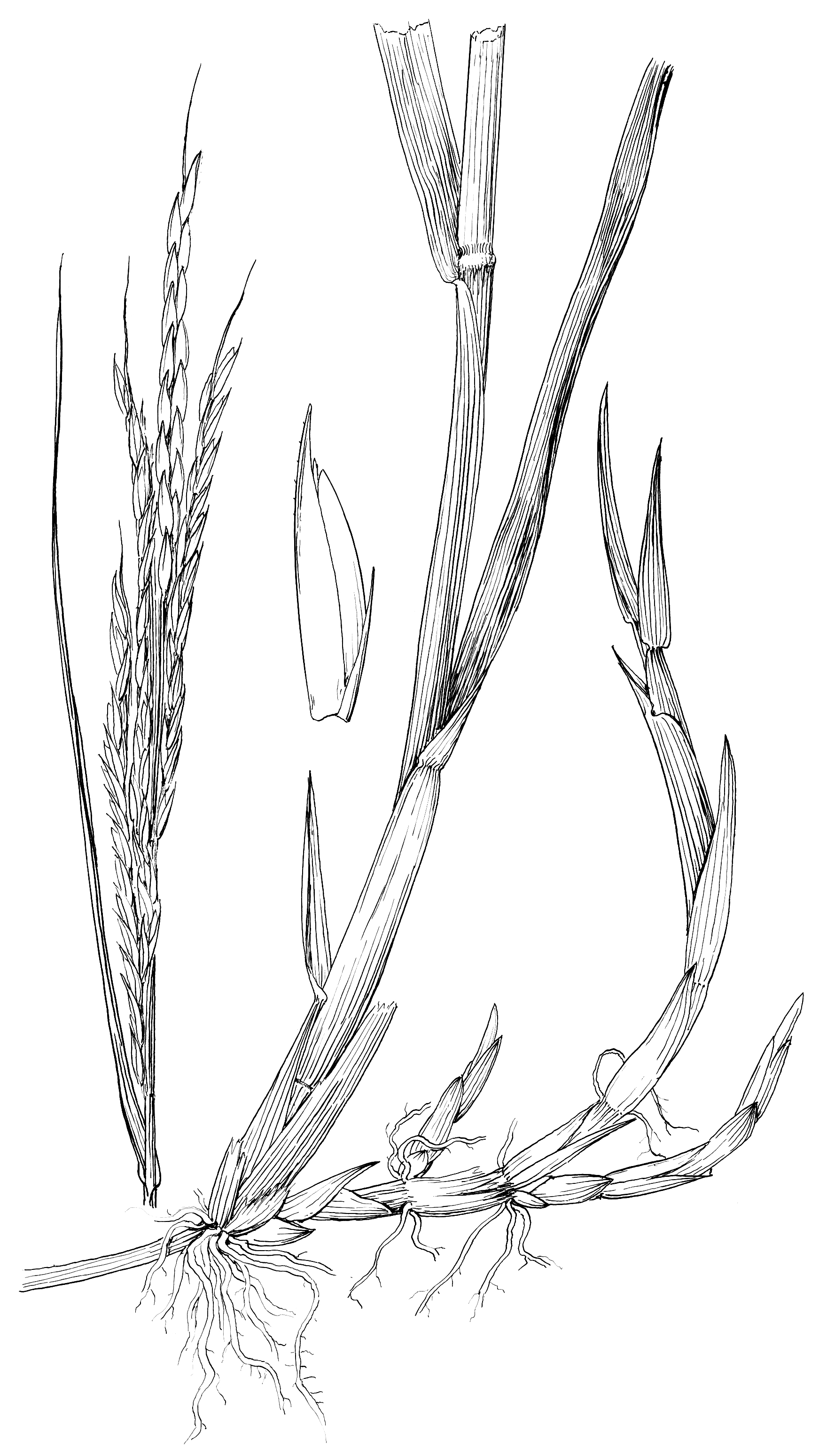 Fig. 19. Smooth cordgrass (Spartina alterniflora): Base of plant showing rhizomes; inflorescense; spikelet, enlarged.